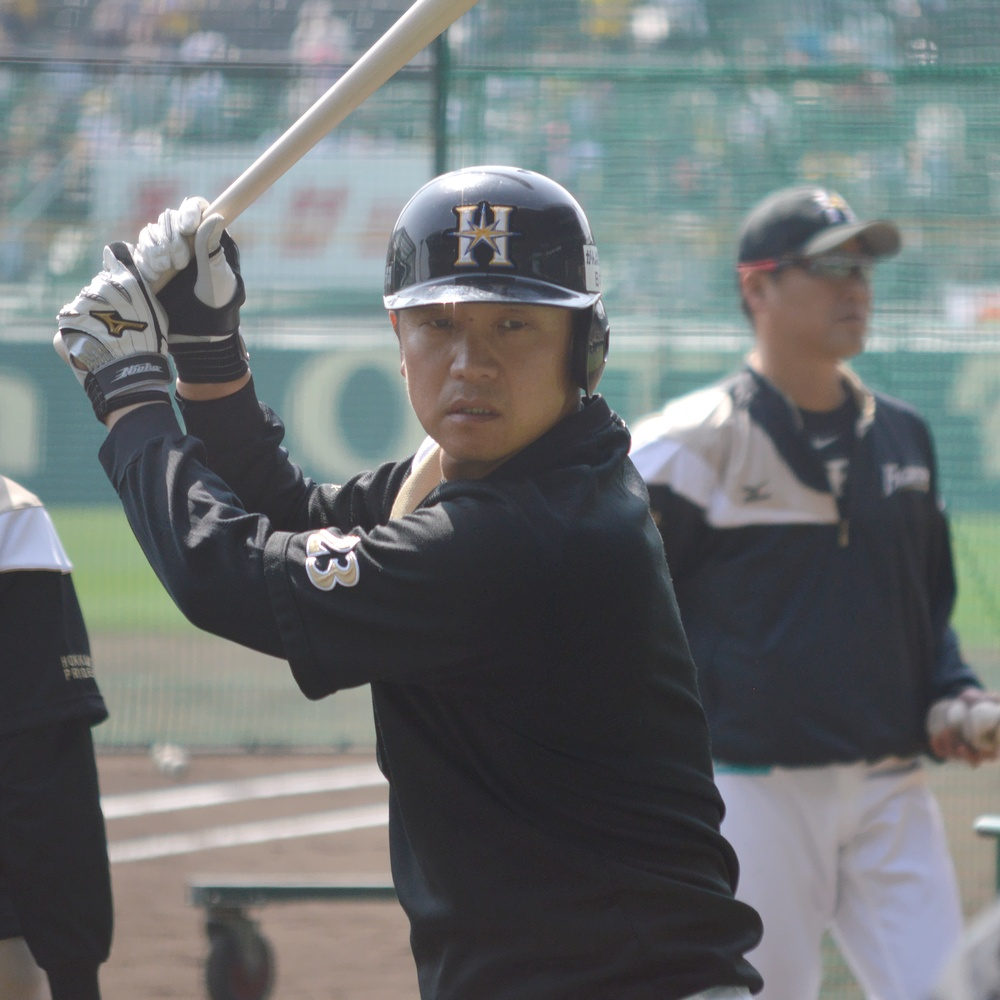 NF-Tomohiro-Nioka20130309